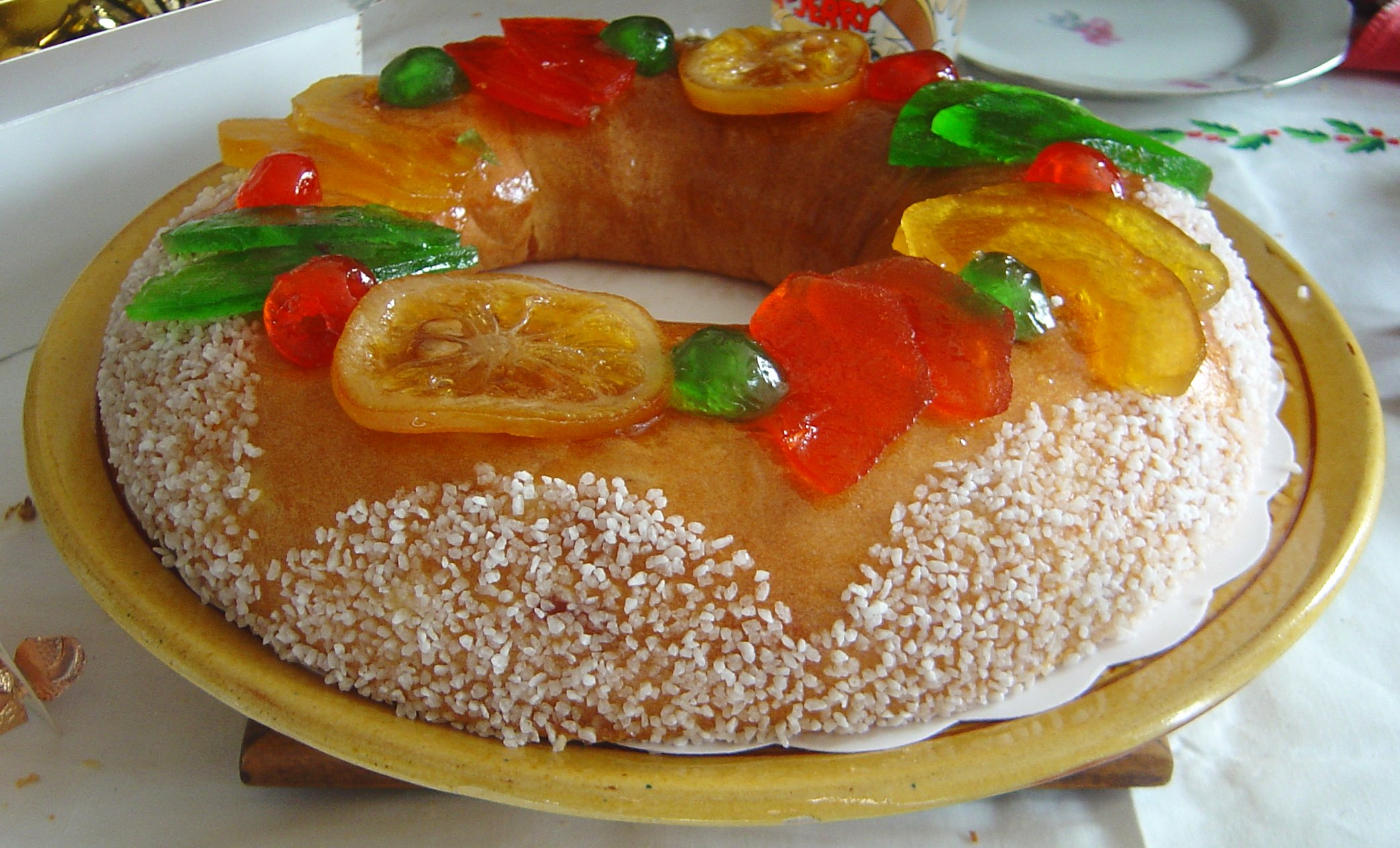 Brioche of the Magi (King cake), with fruits confits, from Toulon; this kind is kings' cake is more common in the southeast than the northern-kind galette